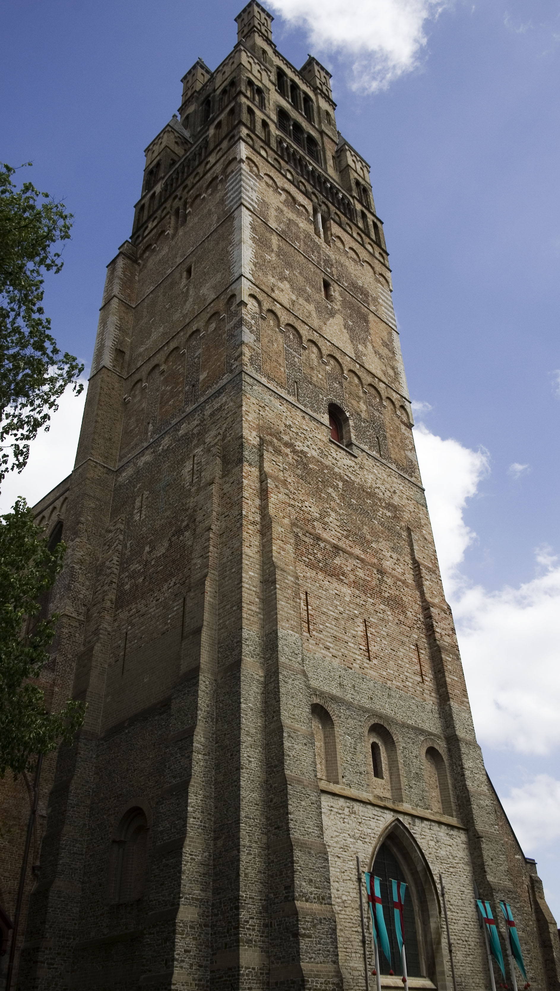 Sint-Salvator Cathedral in Bruges